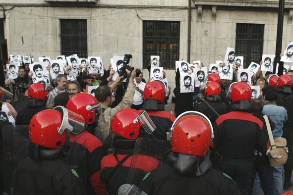 Demonstration for remembering Jose Antonio Lasa and Jose Ignacio Zabala, killed and tortured by GAL, and police charge against it.